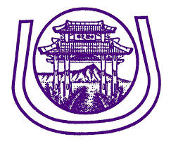 This is the logo of the Hawaii United Okinawa Association (HUOA), an organization for the Okinawan diaspora in Hawaii.